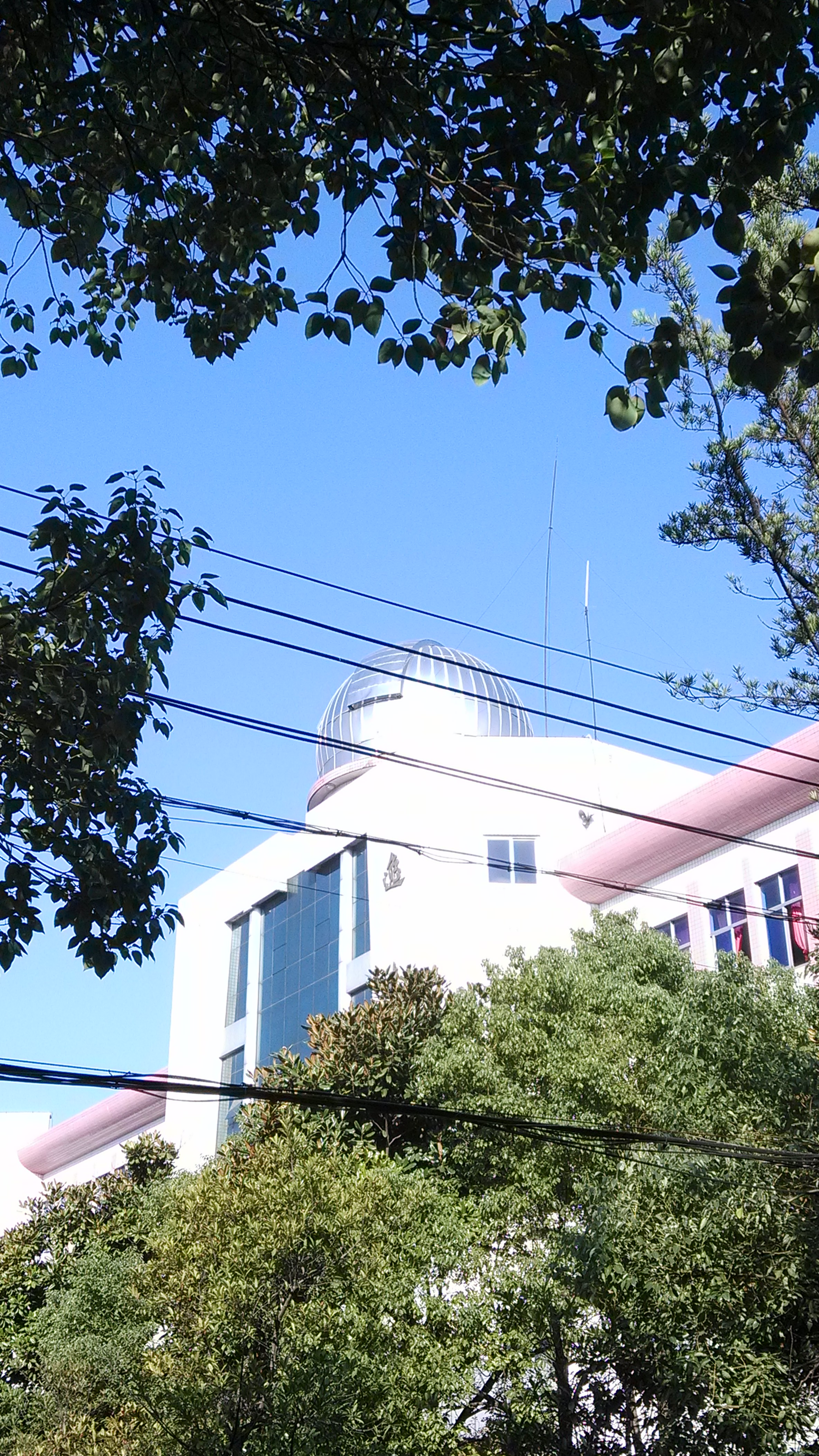 江西省抚州市第一中学,原名临川中学,是民国时期物理学"四大名旦"饶毓泰的母校.